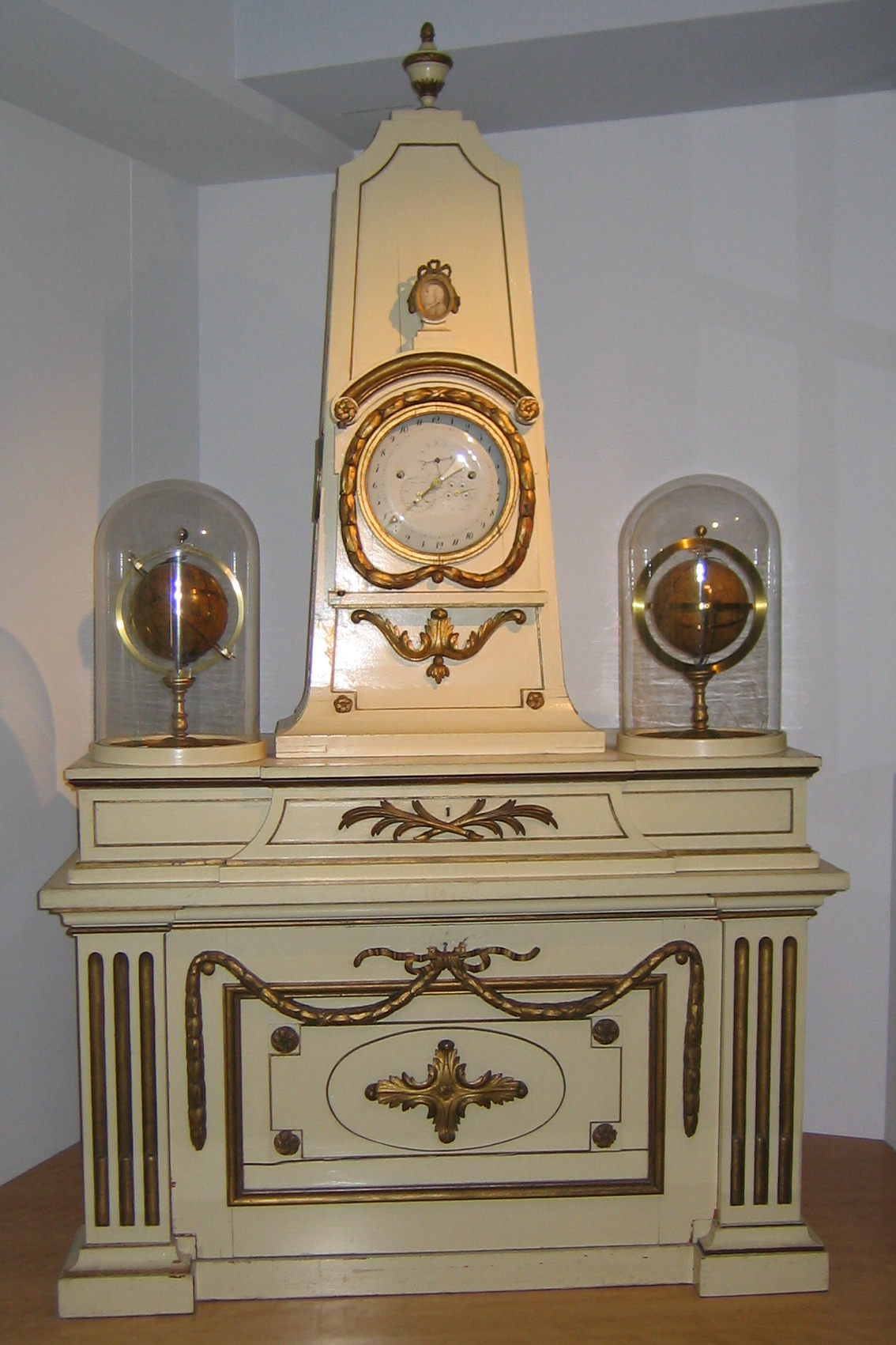 Double-globe clock (c. 1785) by Philipp Matthäus Hahn (design) und Philipp Gottfried Schaudt (production) (Deutsches Uhrenmuseum, Furtwangen; inventory no. 43/0001)